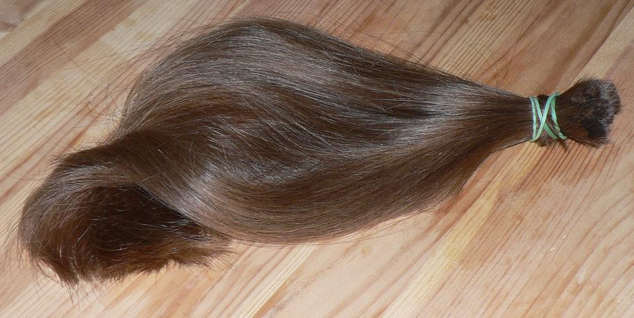 Cutted tassel of hair.